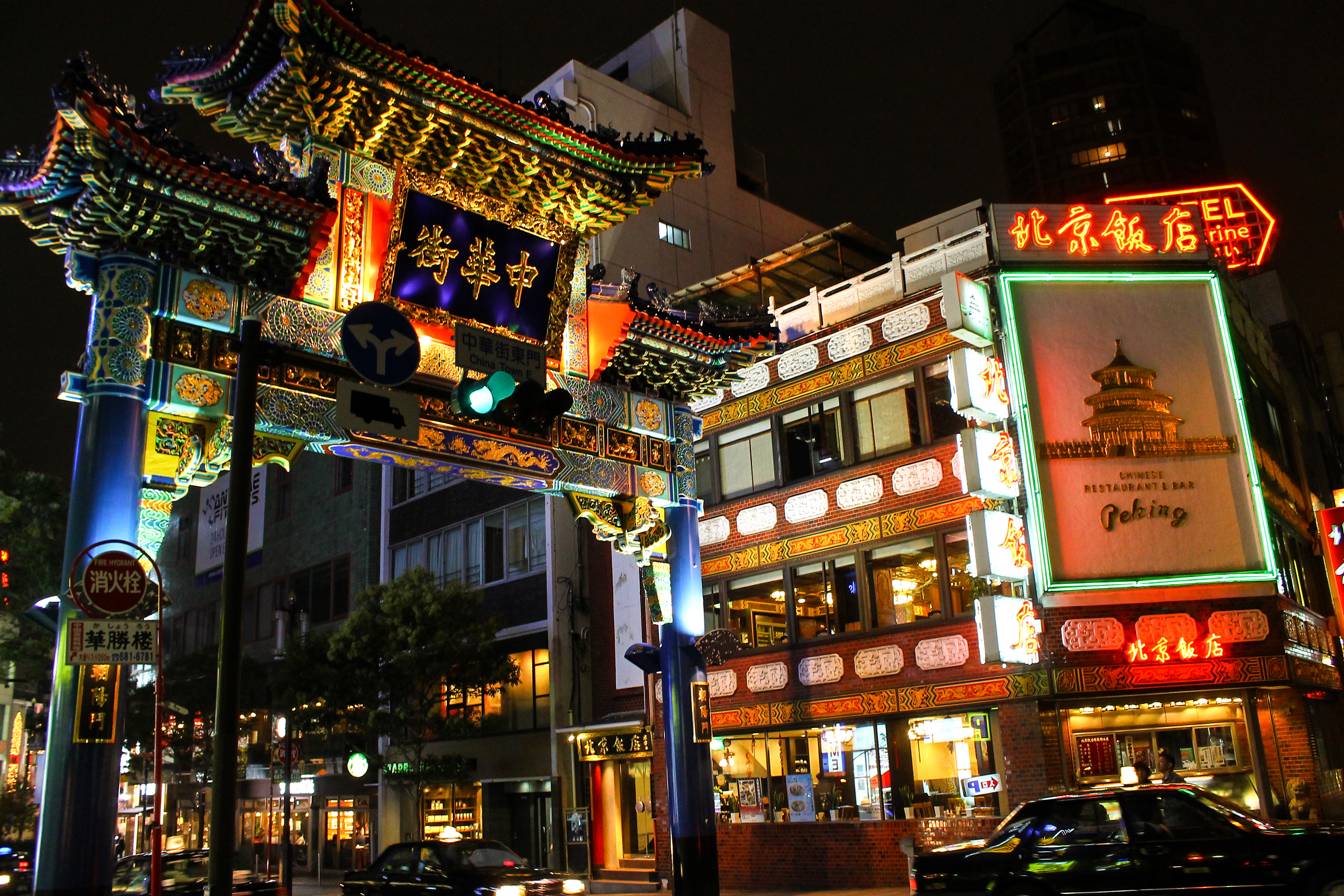 Yokohama Chinatown's East Gate At Night